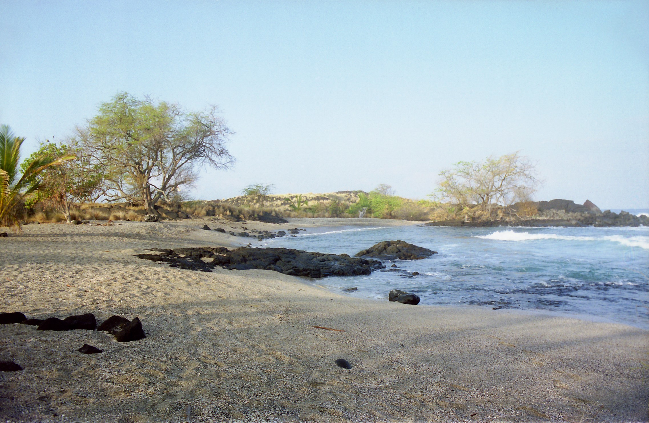 Morning at the Old Airport beach, near Kailua-Kona, Hawaii